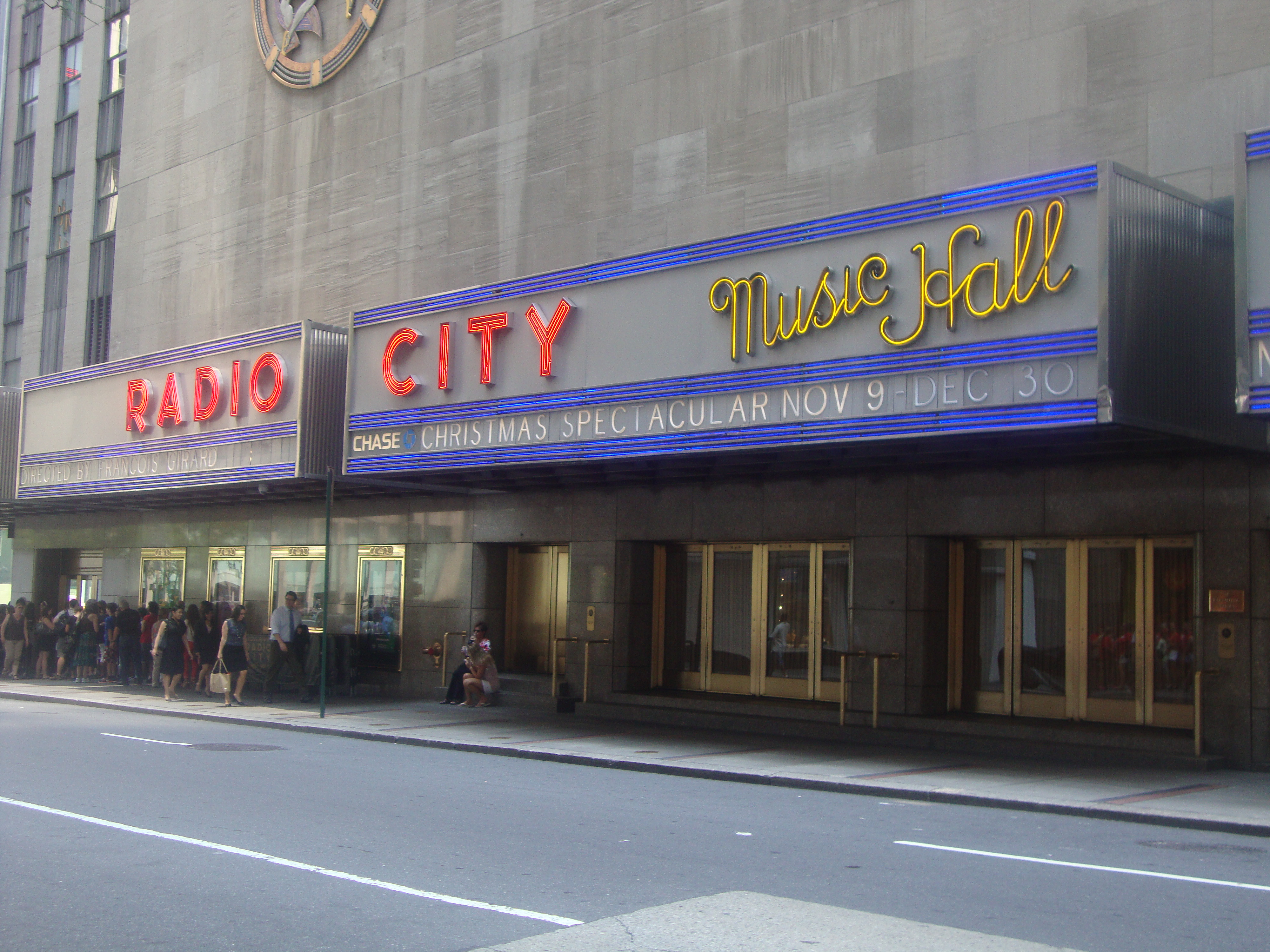 Radio City Music Hall, Rockefeller Center, Manhattan, NYC